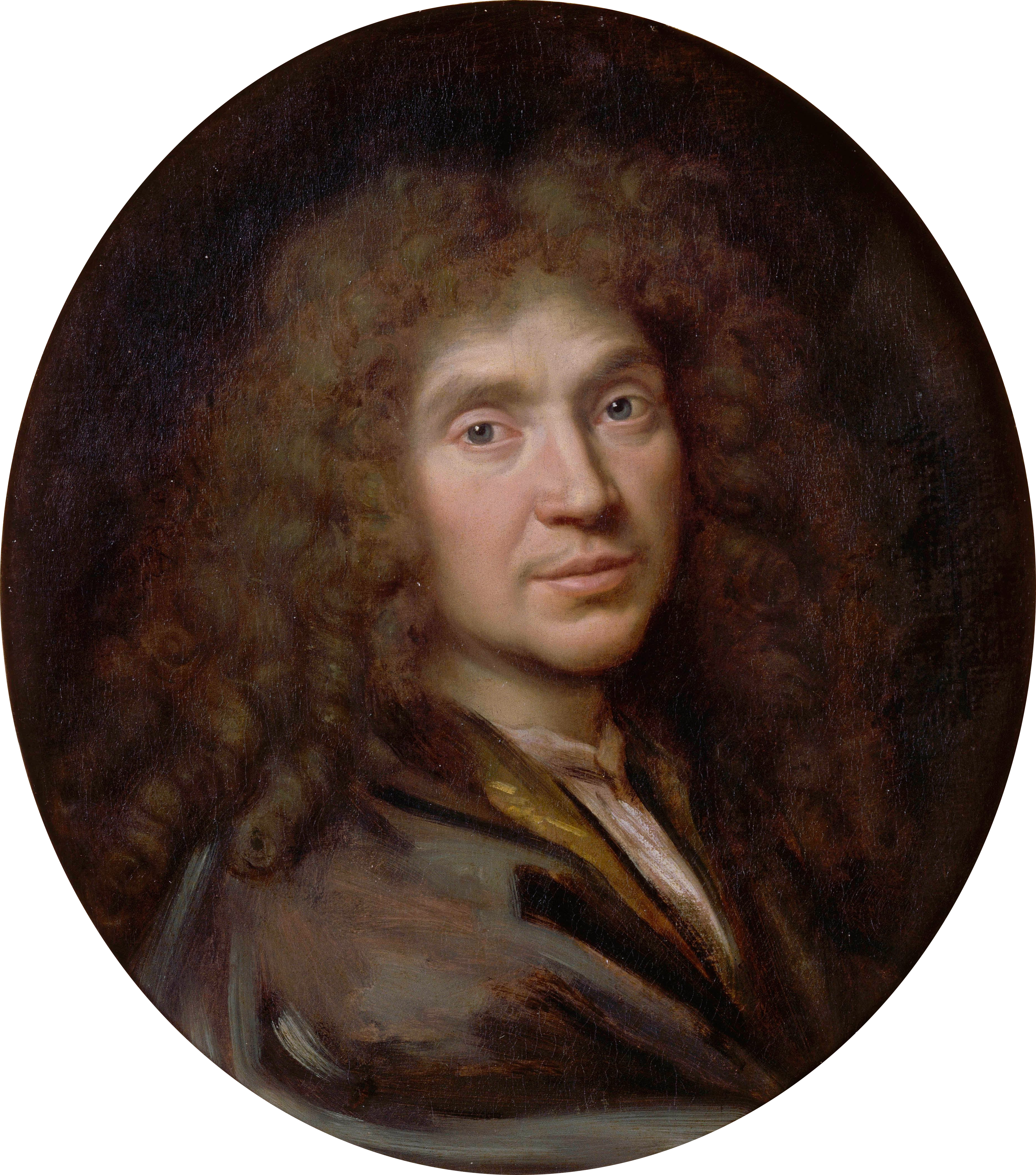 Portrait of Molière painted at Avignon c. 1658, after which the two artists formed a lasting friendship